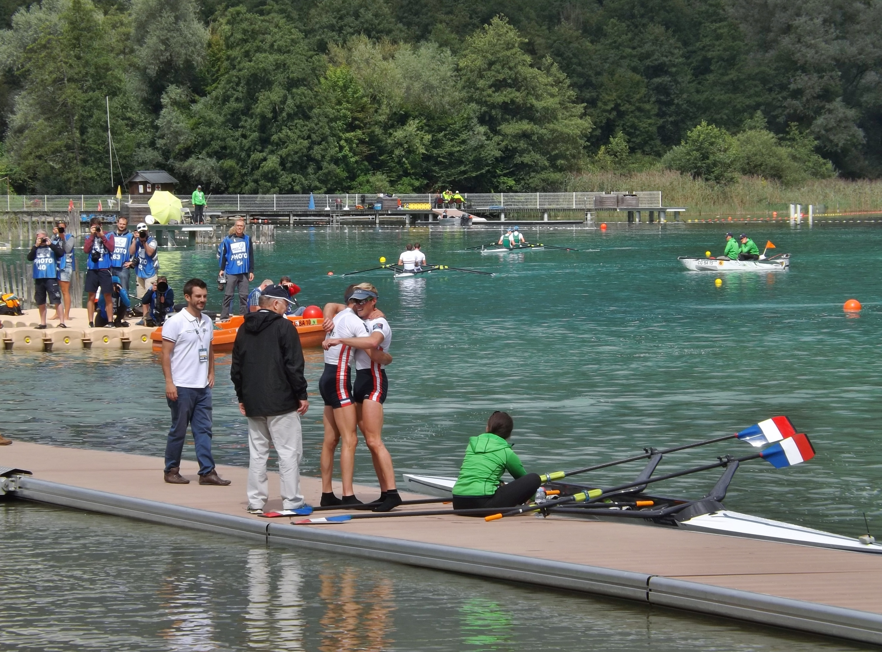 Sight of French athletes Jérémy Azou and Stany Delayre congratulating each other for the gold medal they have just won, during the 2015 World Rowing Championships taking place on the lac d'Aiguebelette lake, in Savoie, France.